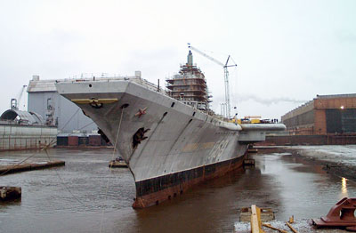 Aircraft carrier "Admiral Gorshkov" during refit at Sevmash, Severodvinsk.